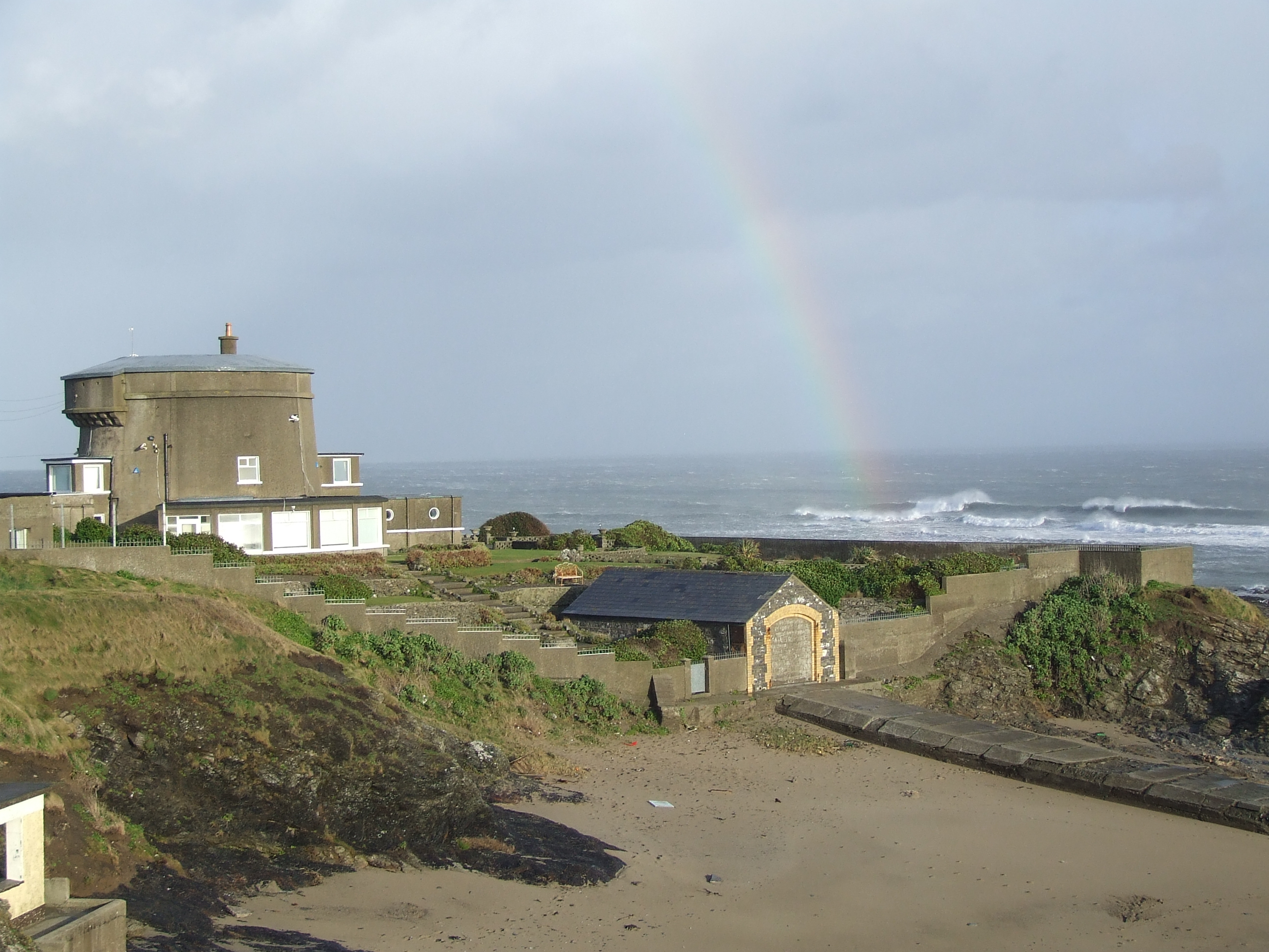 Martello tower in Portrane, County Dublin, Ireland, on a stormy New Year's eve with a nice rainbow.